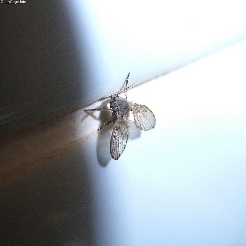 オオチョウバエ Clogmia albipunctatus Sandmücken, moth fly, Psychodidae, Aalputmot, Psychodidae, Бабочницы 水洗ではないトイレによくいる小さな蛾のような蝿。不快害虫といわれている。 Copyright OpenCage